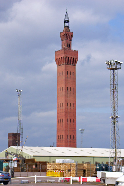 Grimsby Dock Tower Pevsner says "THE DOCK TOWER, 1851-2 by J.W.Wild, is the most memorable building in Grimsby, a beacon for many miles...inspired by Siena Town Hall, but the crowning minaret is oriental. It was built as part of the hydraulic system to open the lock gates and operate cranes, the first major dock to use hydraulic power for this purpose. Of red brick, 309ft tall, taller than Lincoln Cathedral, it rises in an unbroken line to the corbelled-out top, surmounted by a further section again with a corbelled-out top...".